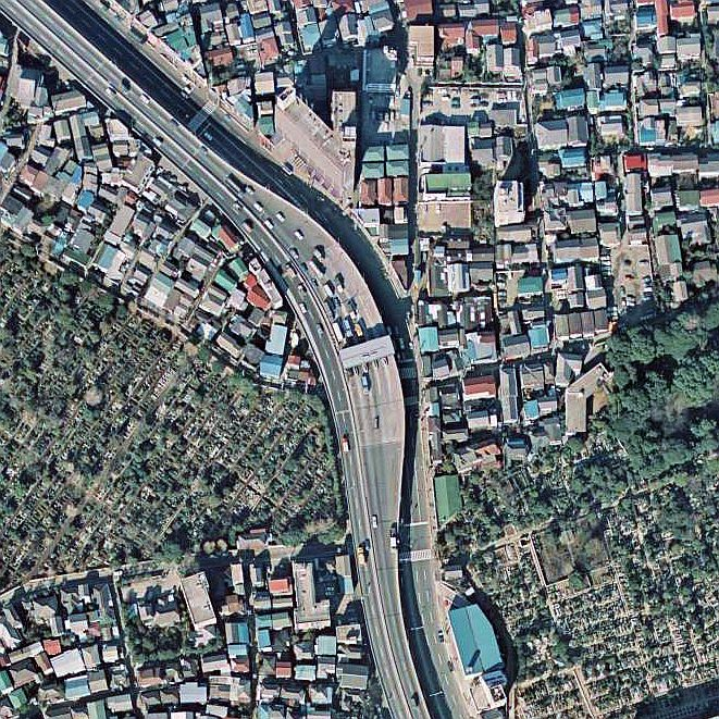 Minami-ikebukuro Parking Area (Ikebukuro Route).